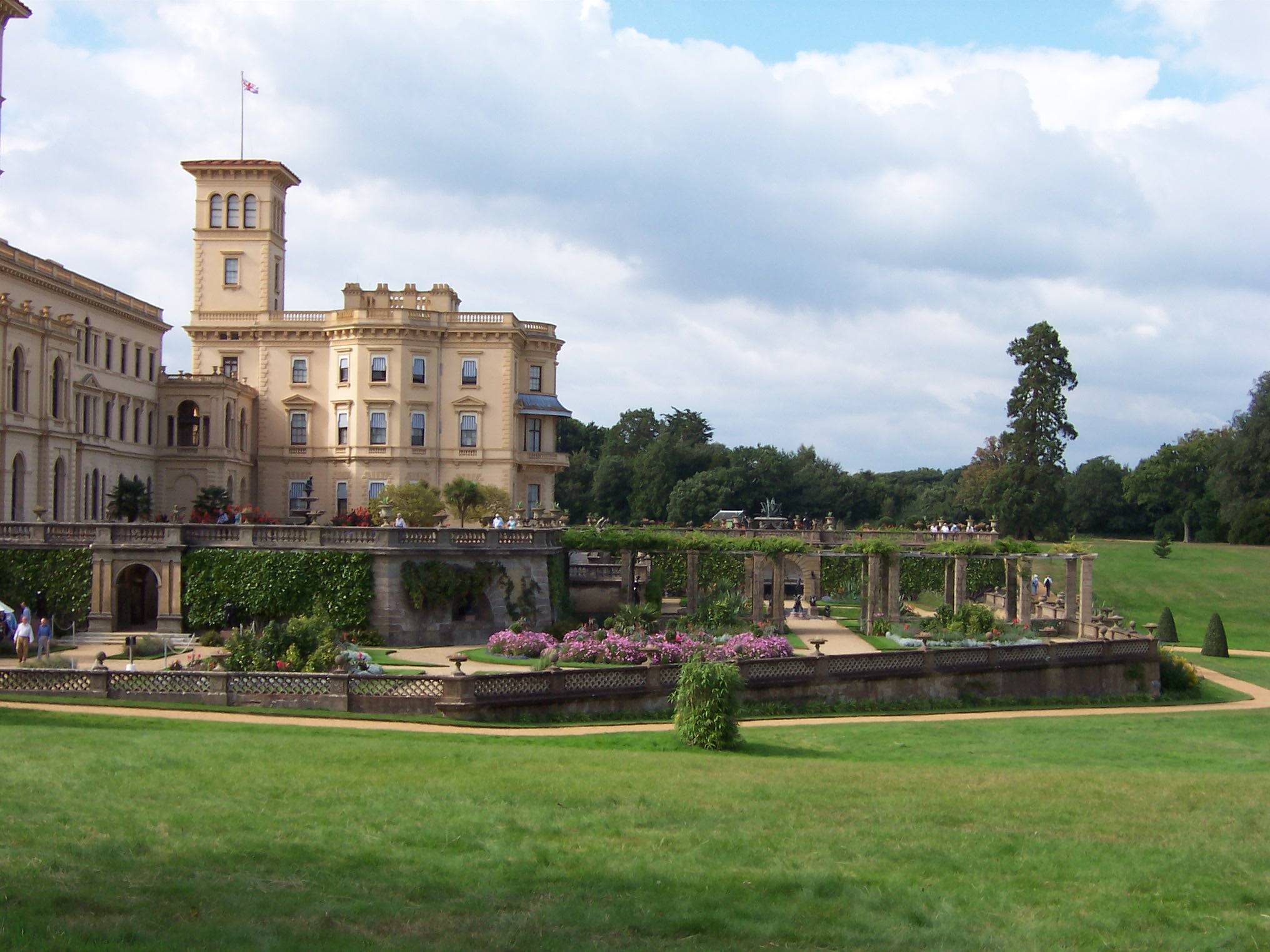 Osborne House